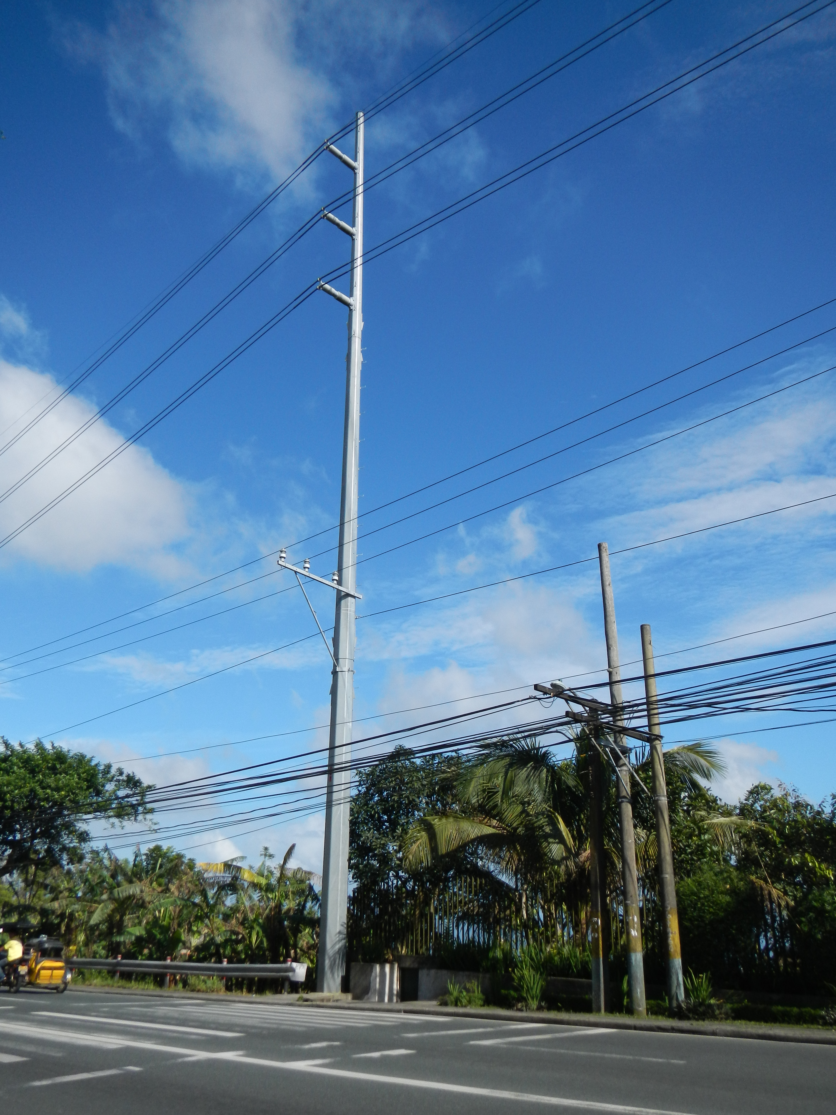 Upload Wizard photos of - Tagaytay[1] City of Tagaytay - the Landmark, Heritage, Cultural tourist spot and pilgrimate site - the 1940 Our Lady of Lourdes Parish Church of Tagaytay (under the Capuchin Franciscans, a place of Healing and Pilgrimage.is preparing for its Diamond or 75th Anniversary - it belongs to the Roman Catholic Diocese of Imus [2], Vicariate of The Seven Archangels Tagaytay City, Mendez, Indang, Amadeo, Alfonso, and General Aguinaldo; Vicar Forane: Rev Fr. Luisito C. Gatdula Vicarial Representative: Rev. Fr. Hermenegildo M. Asilo) - Tagaytay[3] City of Tagaytay - Scenery - along Aguinaldo Highway corner Lourdes Drive st. - in front slightly is the Poveda House of Prayer, which is in front also of the vast grass fields, or pasture beside the Canossa House of Spirituality overlooking the panoramics, landscape view of the - Tagaytay[4] City of Tagaytay, and its neighbor towns, including Taal Lake, Taal Volcano and the Mountains.